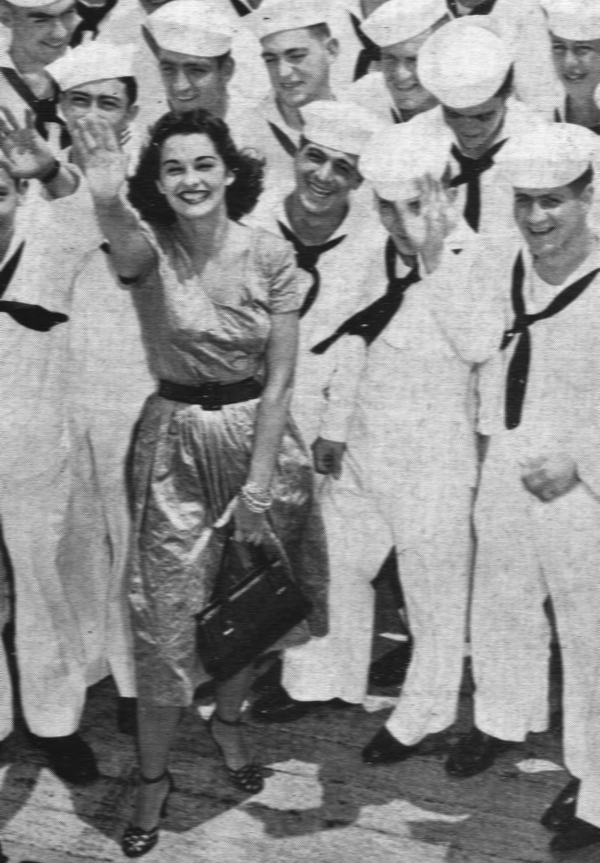 The 1951 Miss America, Yolande Betbeze, with U.S. Navy sailors aboard the light aircraft carrier USS Monterey (CVL-26).